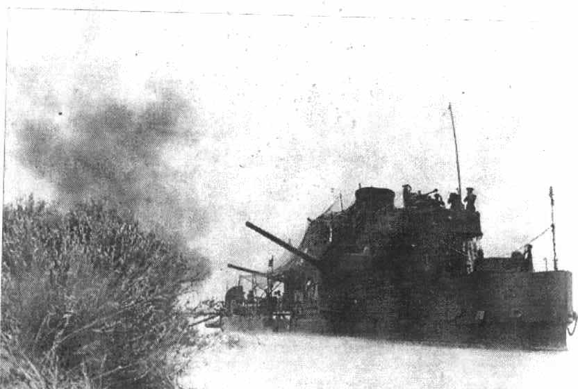 The Romanian monitor Mihail Kogălniceanu in combat camouflage